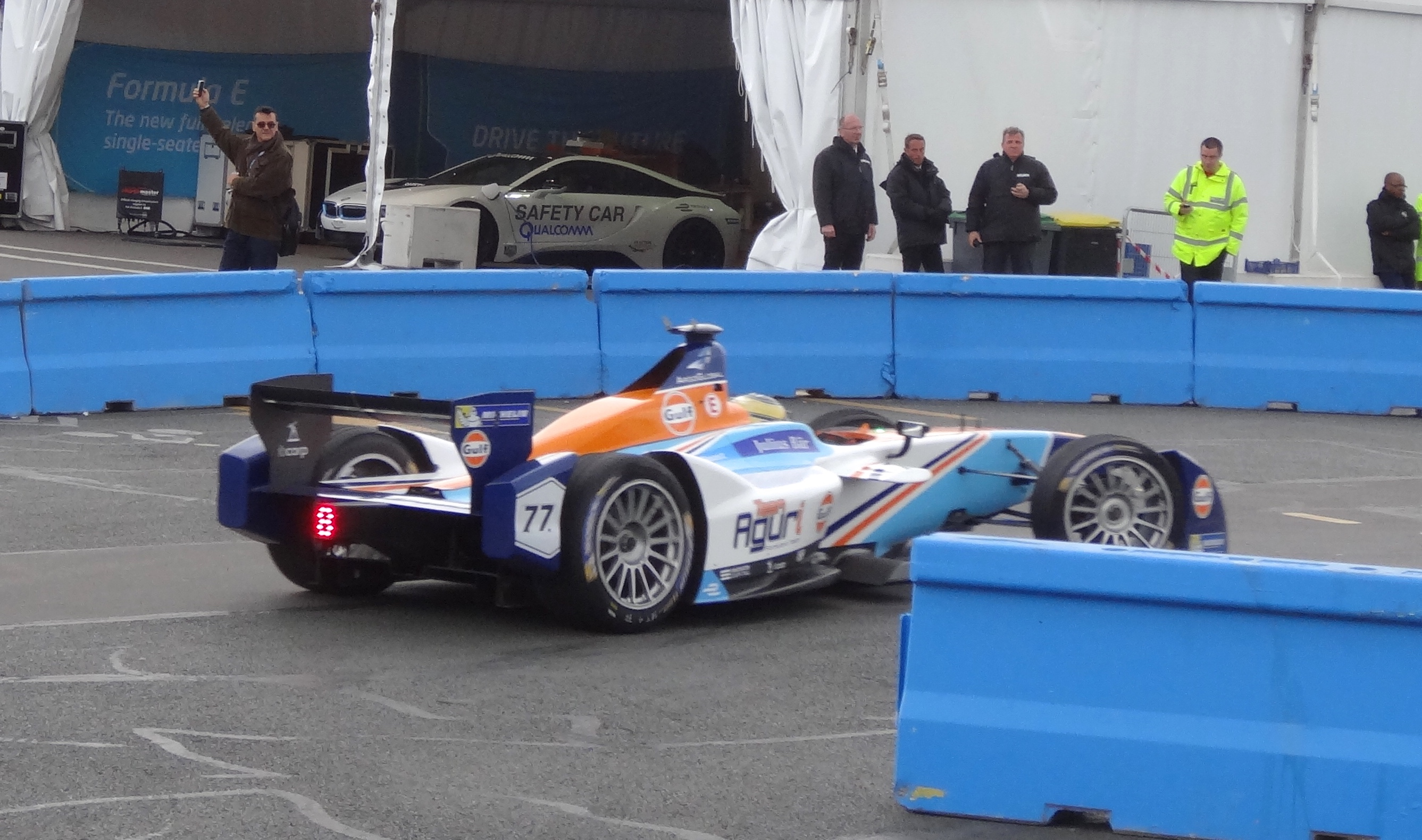 Ma Qing Hua Formula E